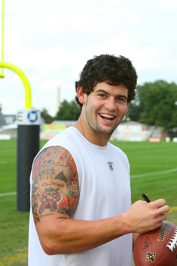 I took this picture of Jay Staggs on July 27, 2007 at the Chicago Bears training camp in Bourbonnais, Illinois.